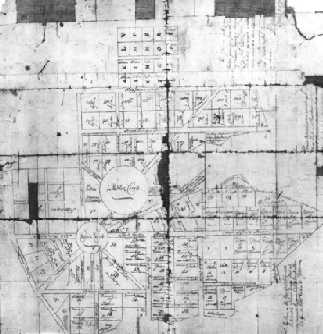 Photograph of a 1743 copy of a 1718 map of Annapolis, Maryland.